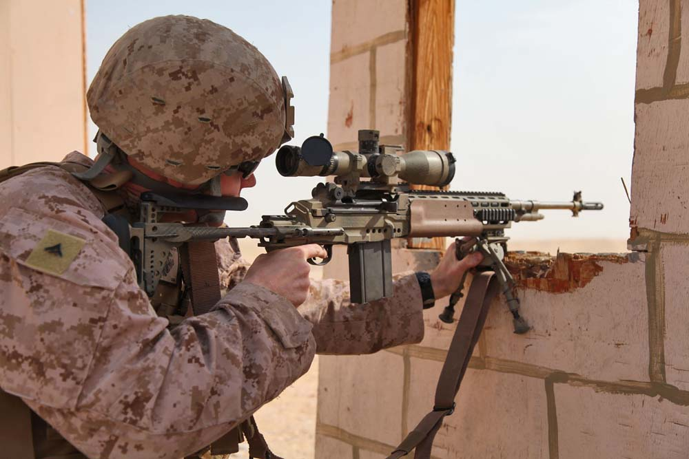 M39 Enhanced Marksman Rifle.